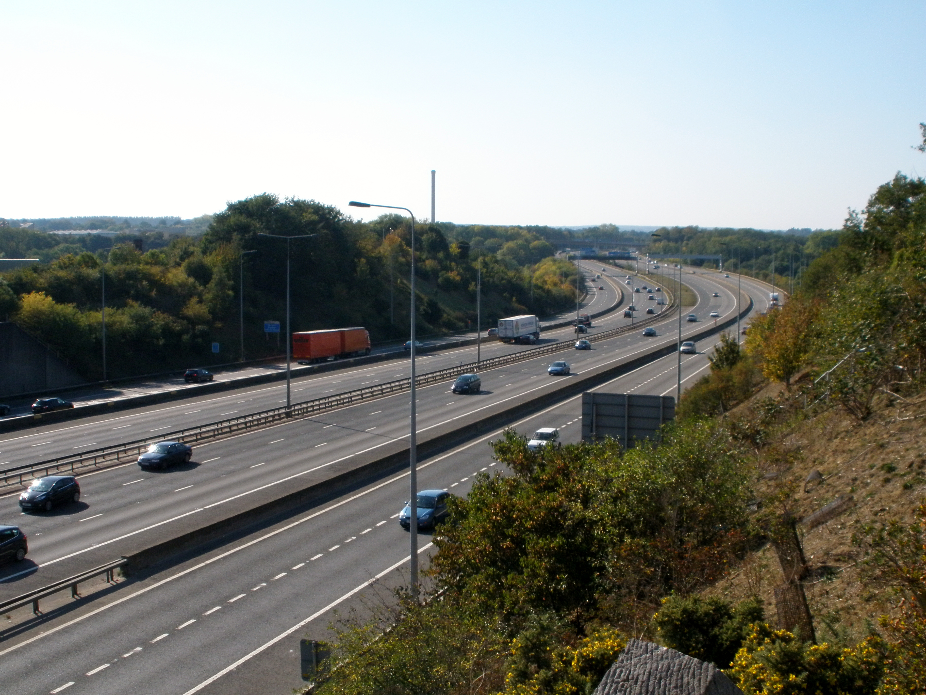 M20 motorway near Maidstone showing local express lanes separated from main carriageway